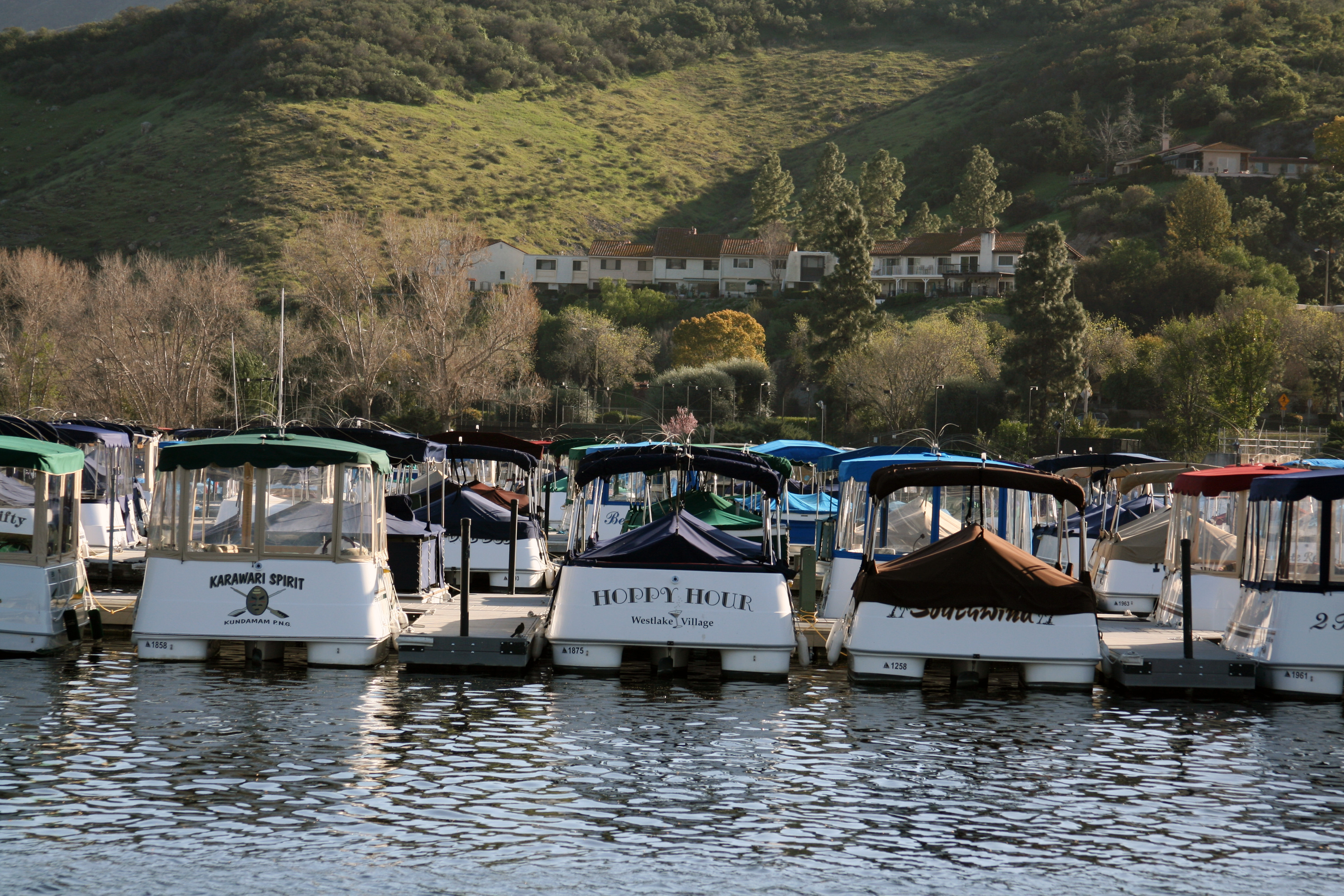 Electric powered boats on Westlake Lake in Westlake Village, CA